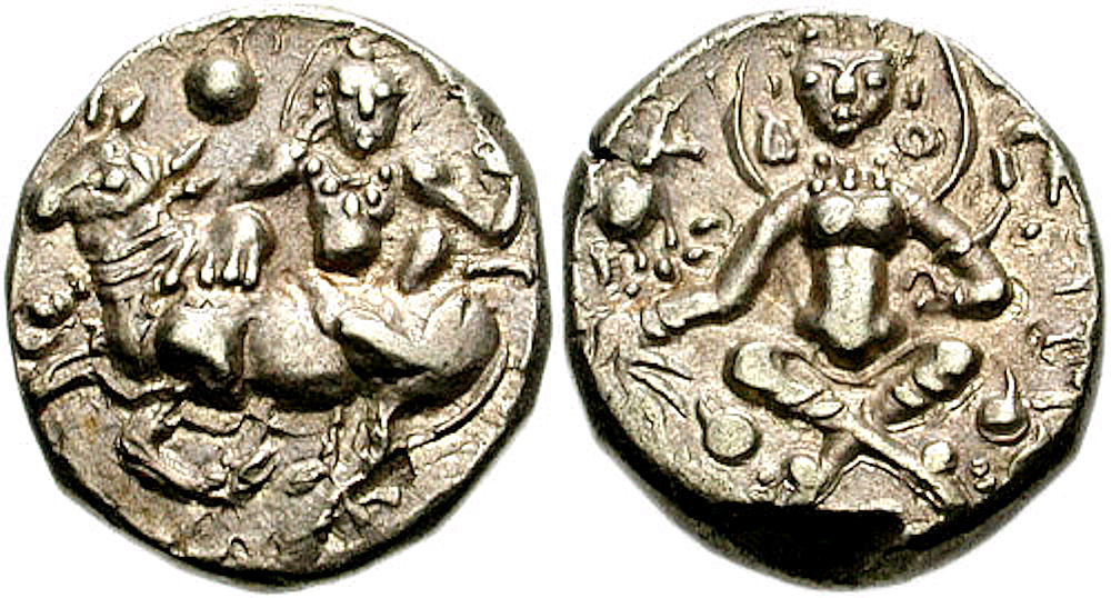 Sasanka Deva king of Gauda circa 600-630. Base AV Dinar (21mm, 9.17 g, 12h). Siva seated facing on bull seated left / Lakshmi seated facing on lotus; being watered by small elephants at either side.